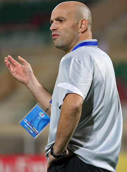 Bernardo Tavares as the head coach of Al Nahda Club. Photographer email id